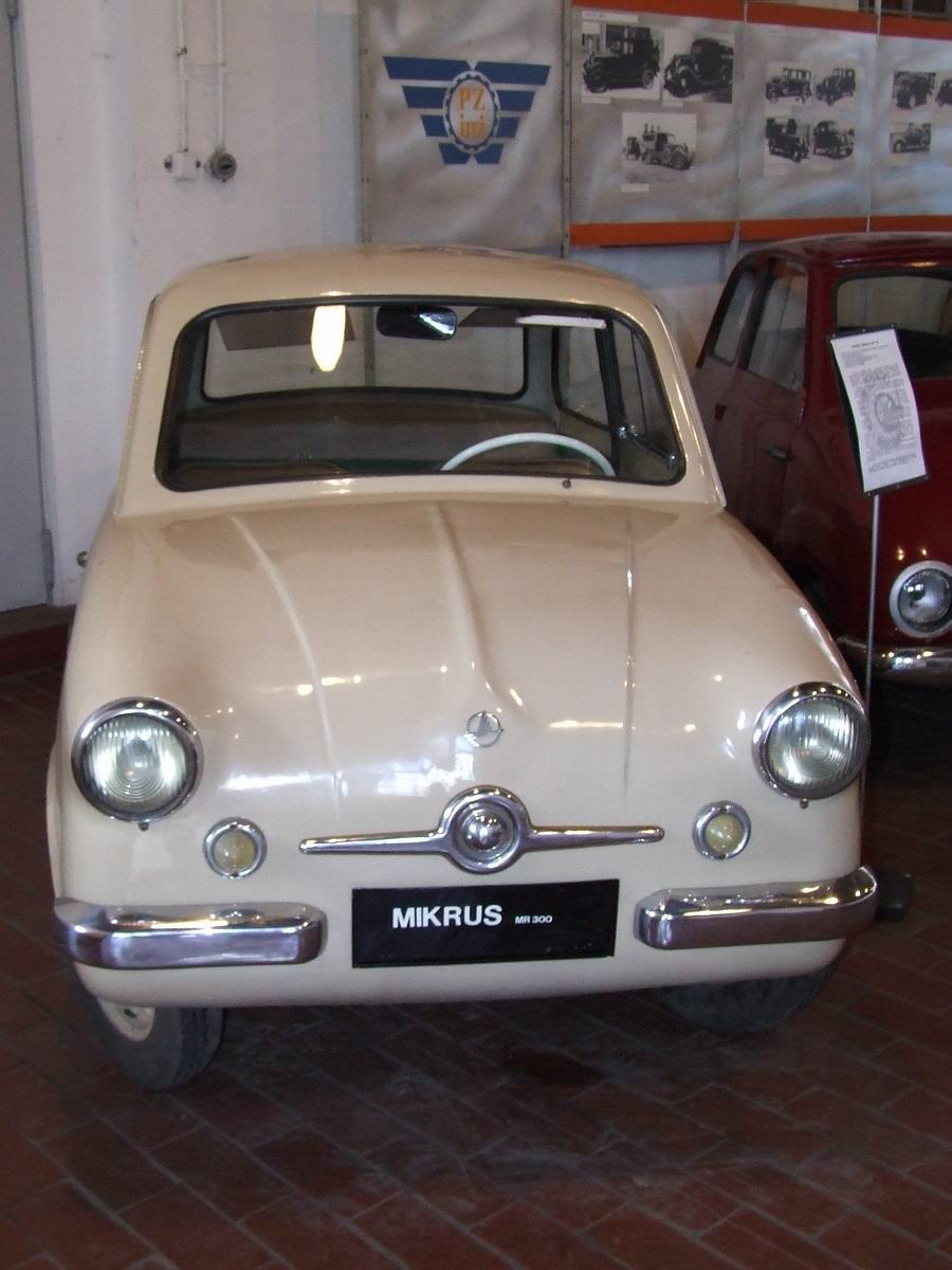 Polish Mikrus MR-300 car, 1957-1960.